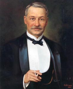 Frederick W.A.G. Haultain painting by Victor Albert Long